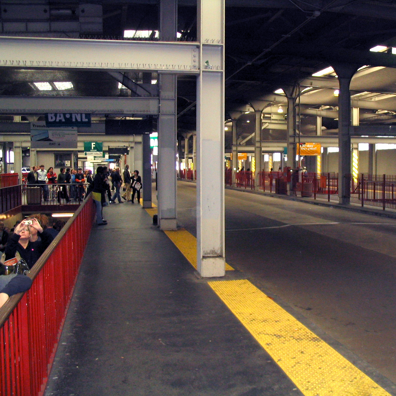 San Francisco Transbay Terminal bus deck, a week before closing